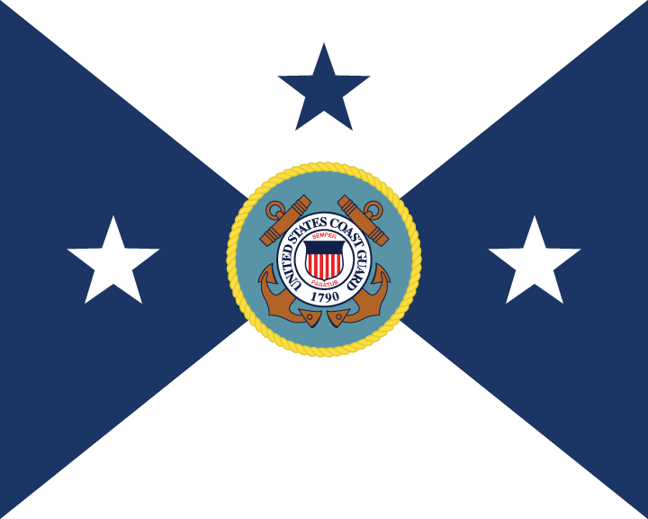 United States Coast Guard Flag of Vice Commandant Websafe Colors